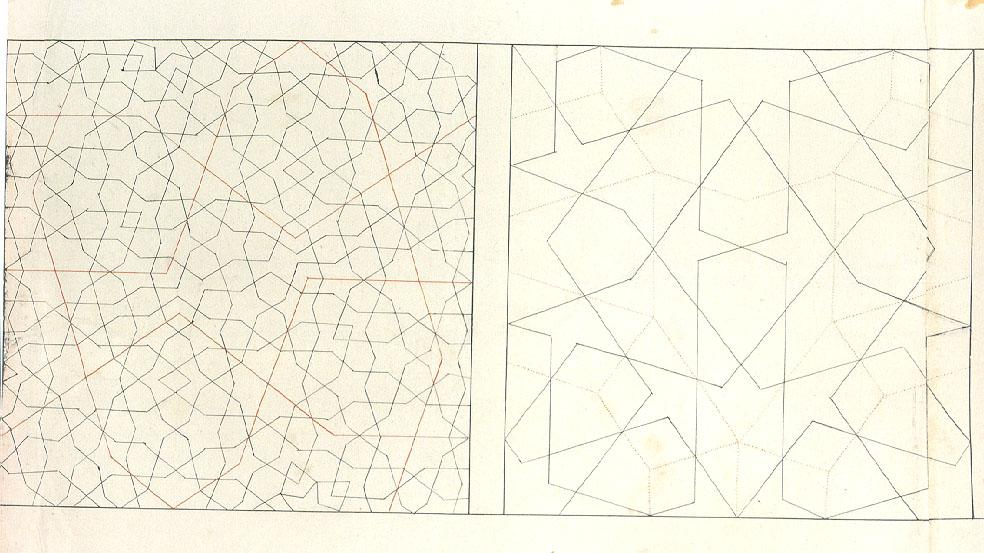 Panel from the Topkapi Scroll. Left, quarter repeat unit of a star-and-polygon pattern with two superimposed layers. rıght, quarter repeat unit of a pattern with two superimposed layers.